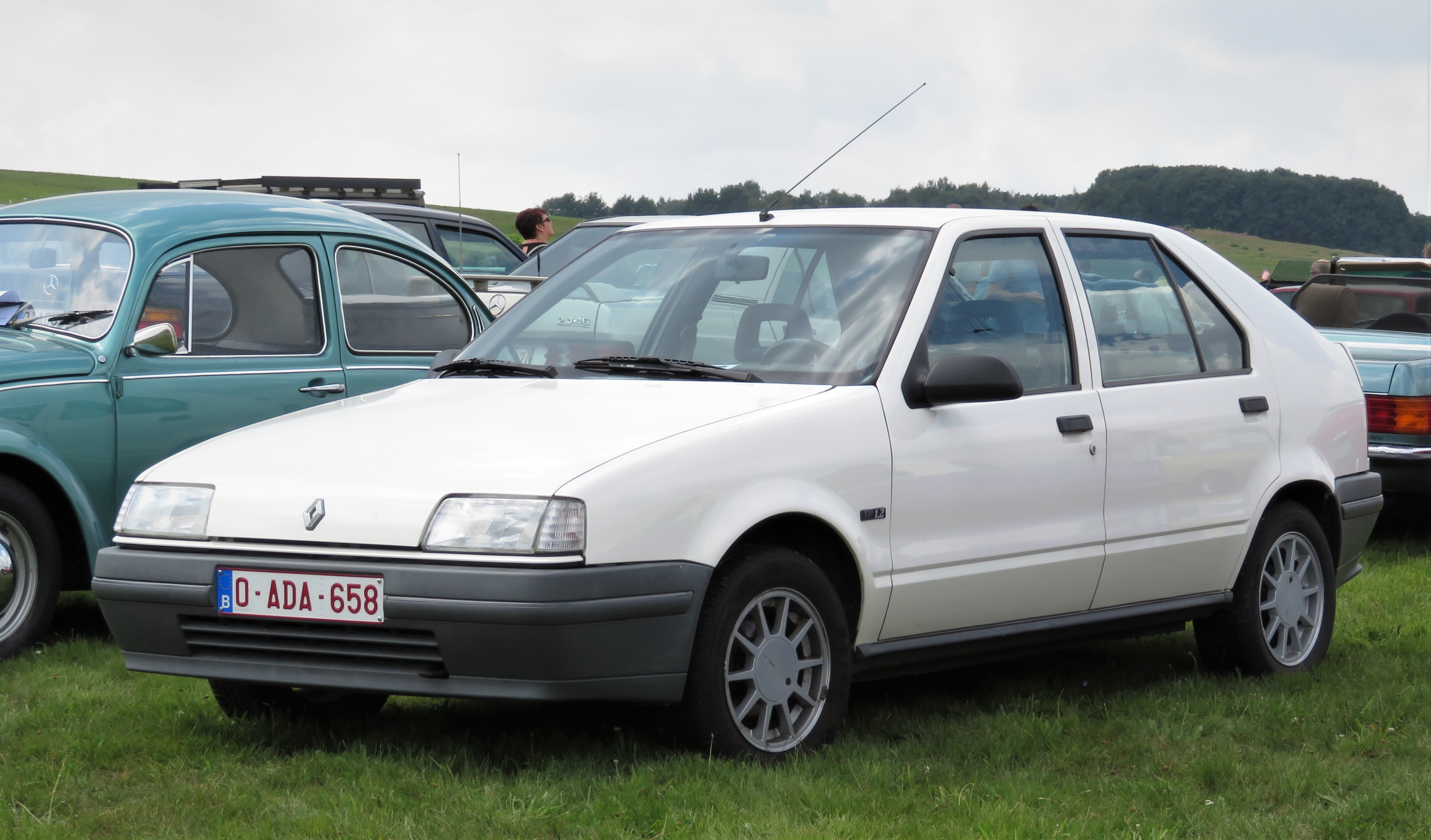 Renault 19 phase 1